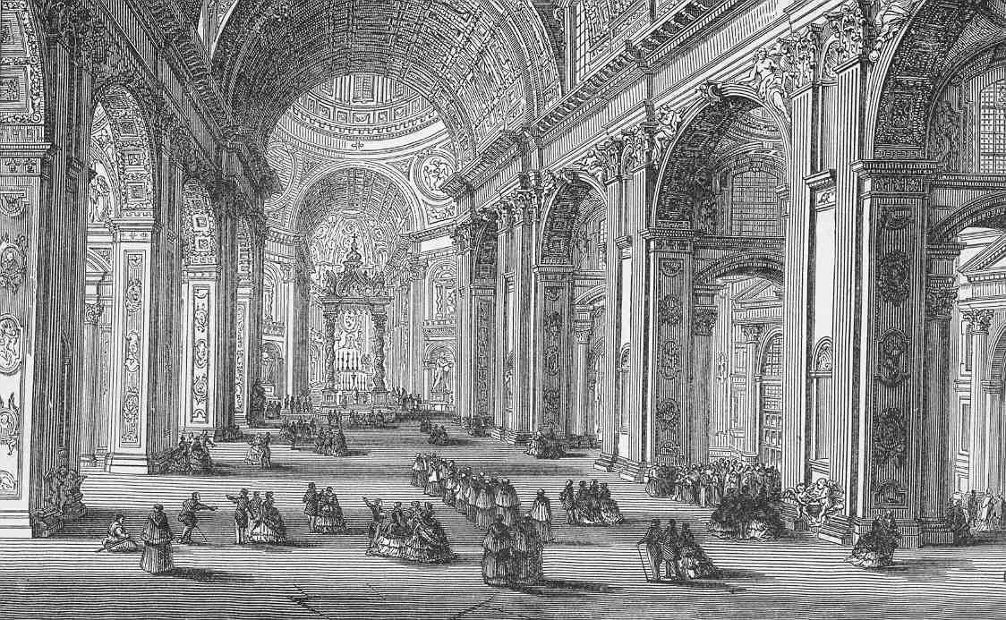 Drawing of the inside of Saint Peter Basilica around 1870